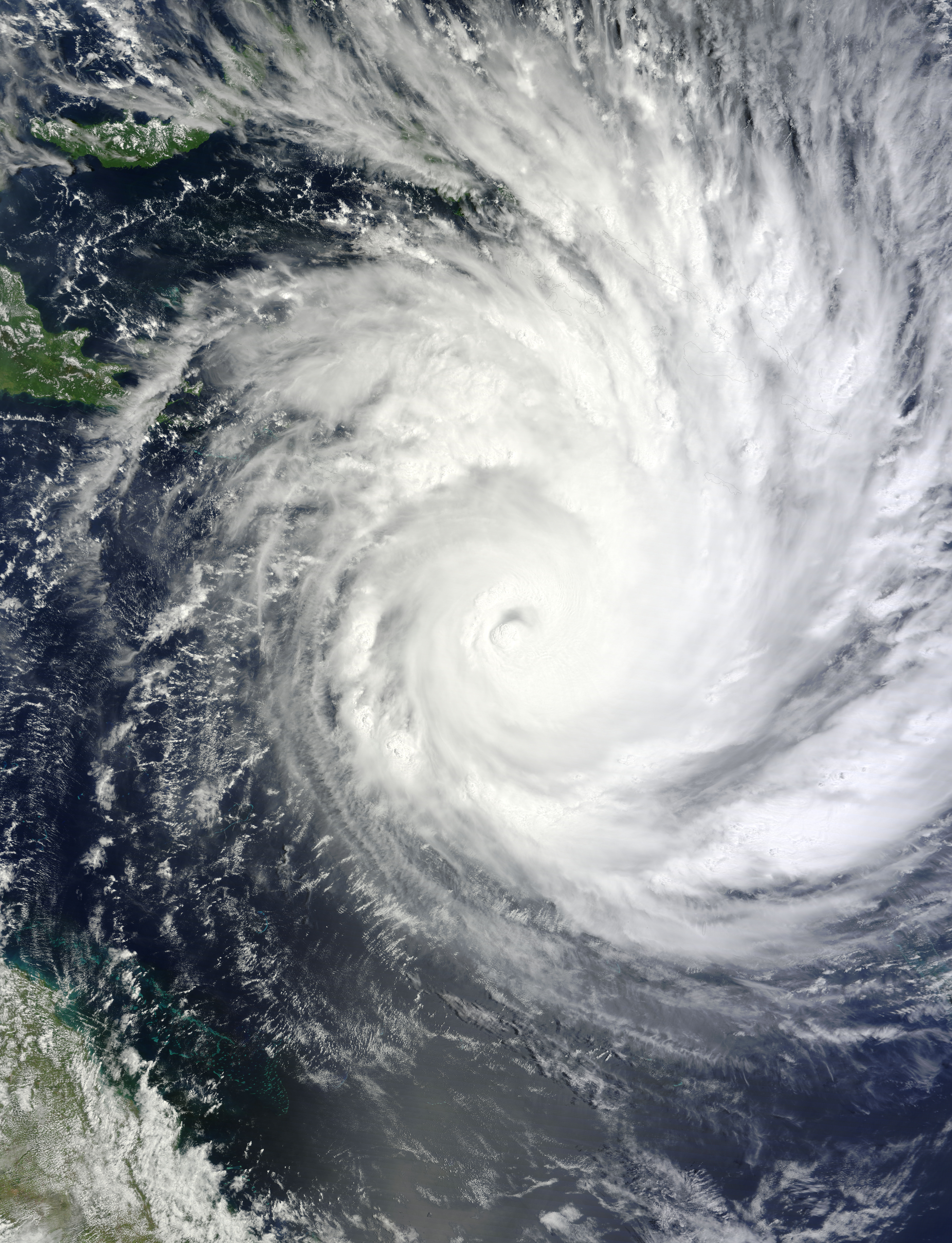 On February 1, 2011, Tropical Cyclone Yasi continued on its path toward Queensland, Australia. The Moderate Resolution Imaging Spectroradiometer (MODIS) on NASA’s Terra satellite captured this natural-color image at 10:00 a.m. Queensland time (00:00 UTC) on February 1. The storm extends over the Solomon Islands (outlined in black) and grazes Papua New Guinea. Part of the Queensland coast appears in the lower left corner of the image. At 1:00 a.m. on February 2 Queensland time (15:00 on February 1 UTC), the U.S. Navy’s Joint Typhoon Warning Center (JTWC) reported that Yasi was roughly 450 nautical miles (835 kilometers) east-northeast of Cairns, Queensland, Australia. Sporting a well-defined eye, Yasi had maximum sustained winds of 120 knots (220 kilometers per hour) and gusts up to 145 knots (270 kilometers per hour). True to earlier forecasts, favorable conditions had enabled the storm to intensify rapidly over the Pacific Ocean. The JTWC forecast that Yasi would continue to strengthen and would remain on west-southwestward track. The storm was expected to make landfall just south of Cairns, bringing high winds and potentially high waves. The Sydney Morning Herald reported that tens of thousands of residents were evacuating ahead of the storm’s anticipated landfall late February 2 or early February 3.